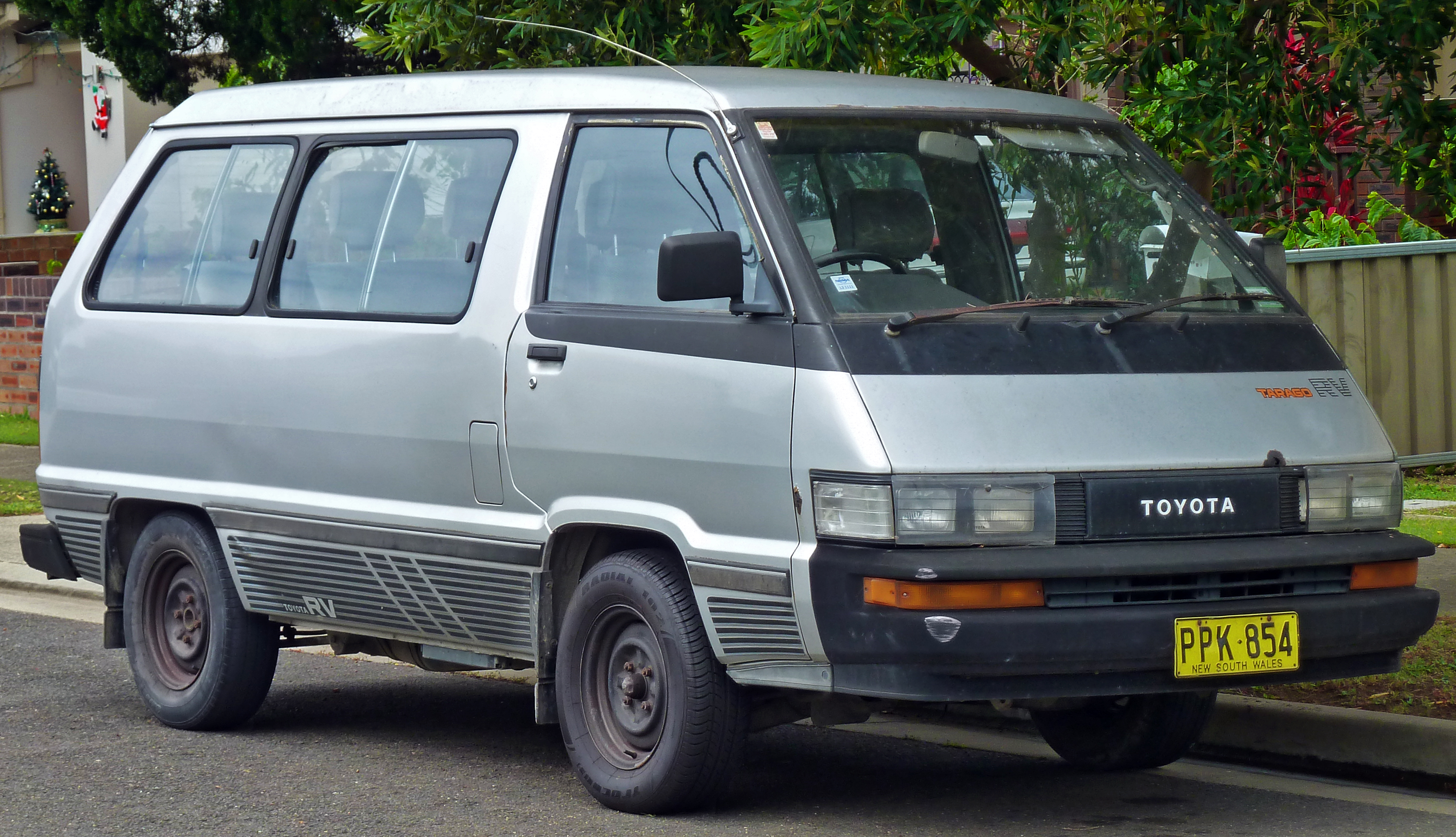 1989 Toyota Tarago (YR22RG) RV van. Photographed in Ramsgate, New South Wales, Australia.